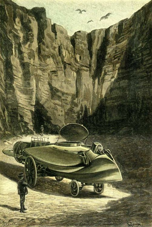 An illustration from Jules Verne's novel "Master of the World" (1902-03) drawn by George Roux.